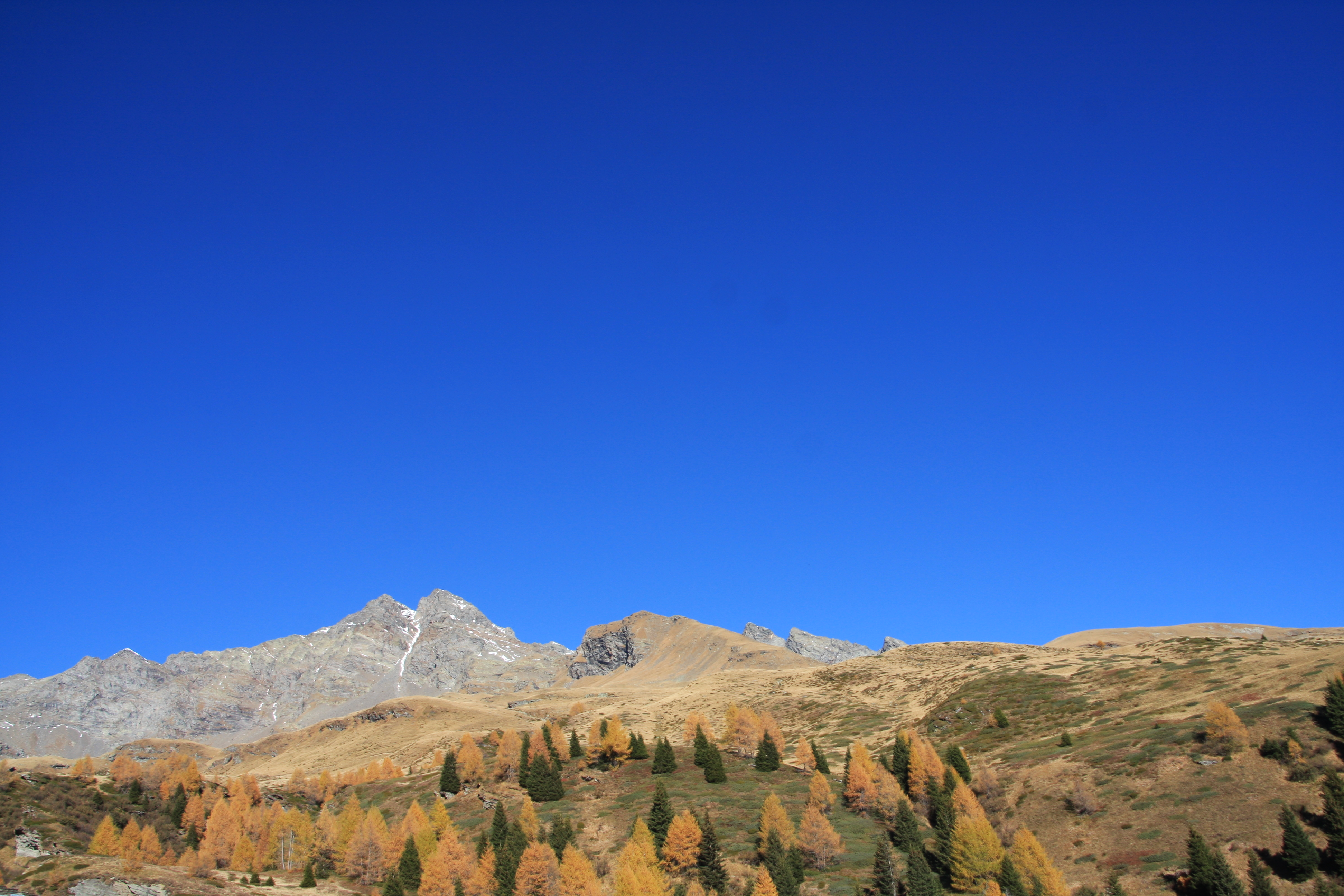 Larix trees and summit of Pizzi dei Piani mount view from Borghetto di Sopra (1980 m.a.s.l.). Photo made in Valchiavenna, Province of Sondrio, region of Lombardy, Italy. The picture was taken on the 15th of October in 2017.